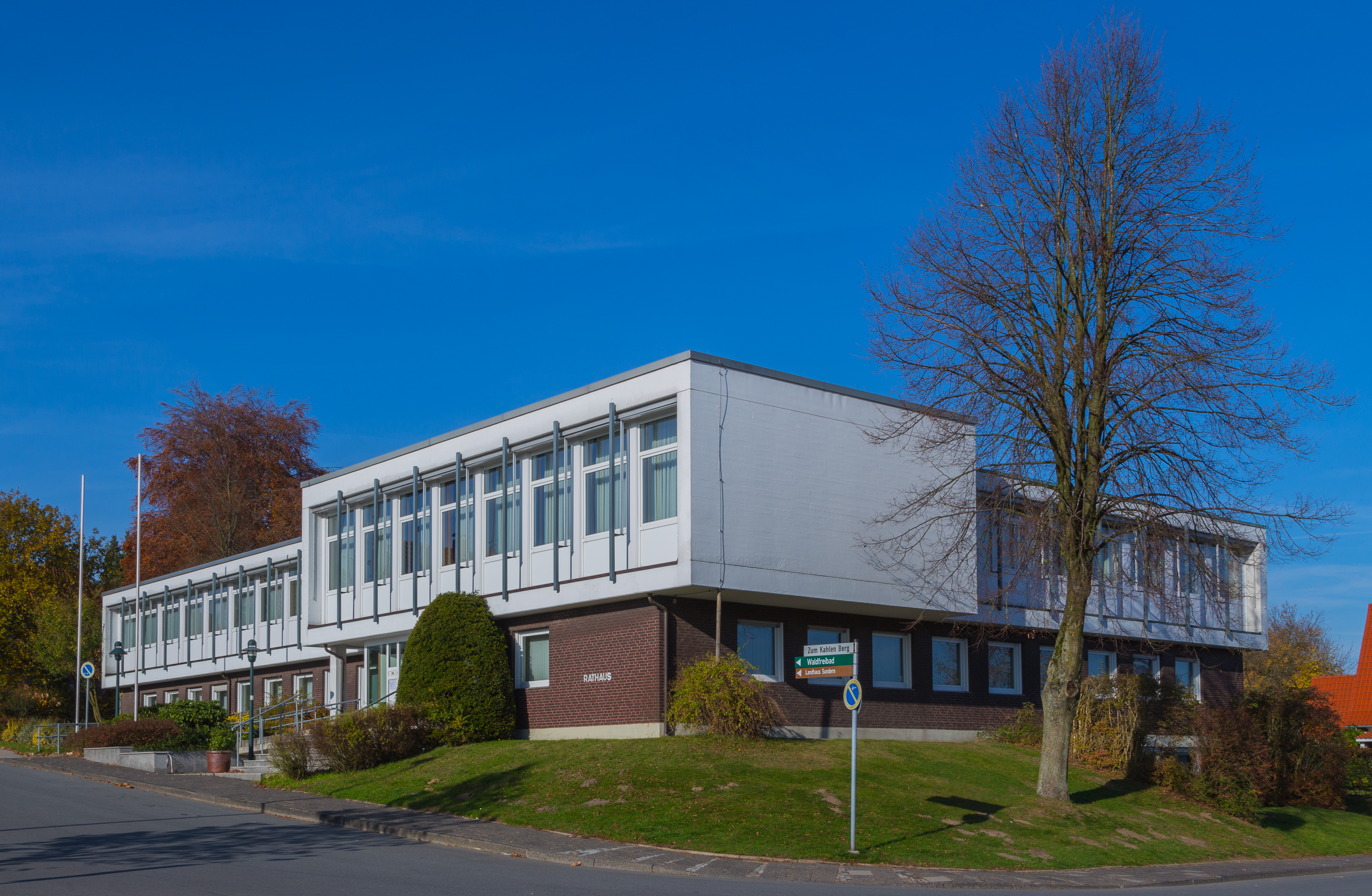 The Town Hall of Tecklenburg, Kreis Steinfurt, North Rhine-Westphalia, Germany.